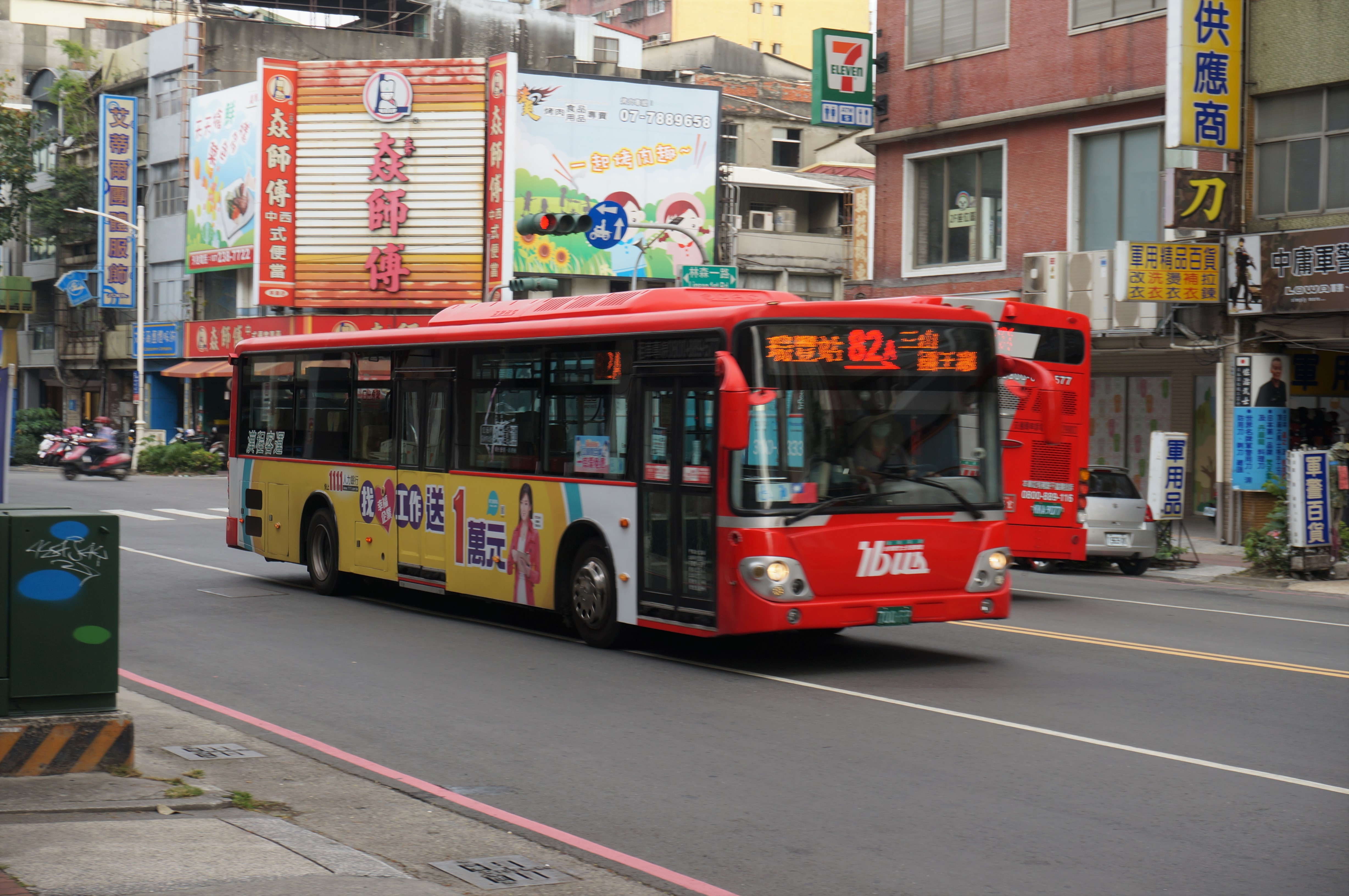 Han Cheng Bus 82A 700-FP